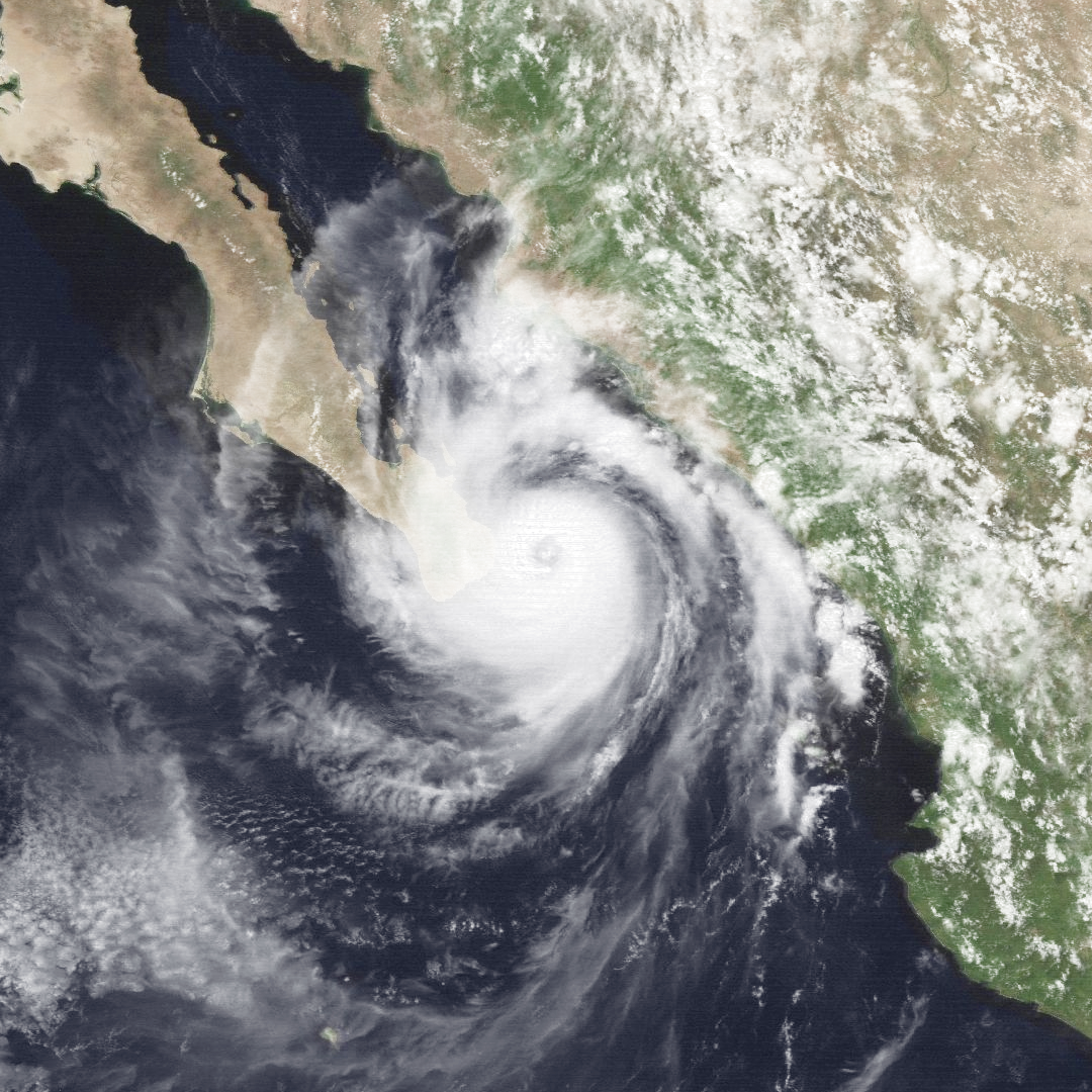 Hurricane Kiko near peak intensity just south of the Baja Peninsula on August 26, 1989